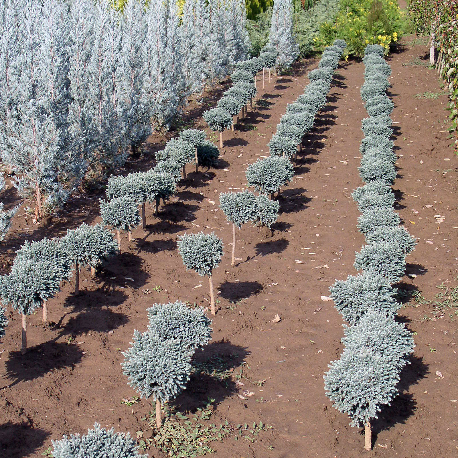 Blue Star Juniper Standard